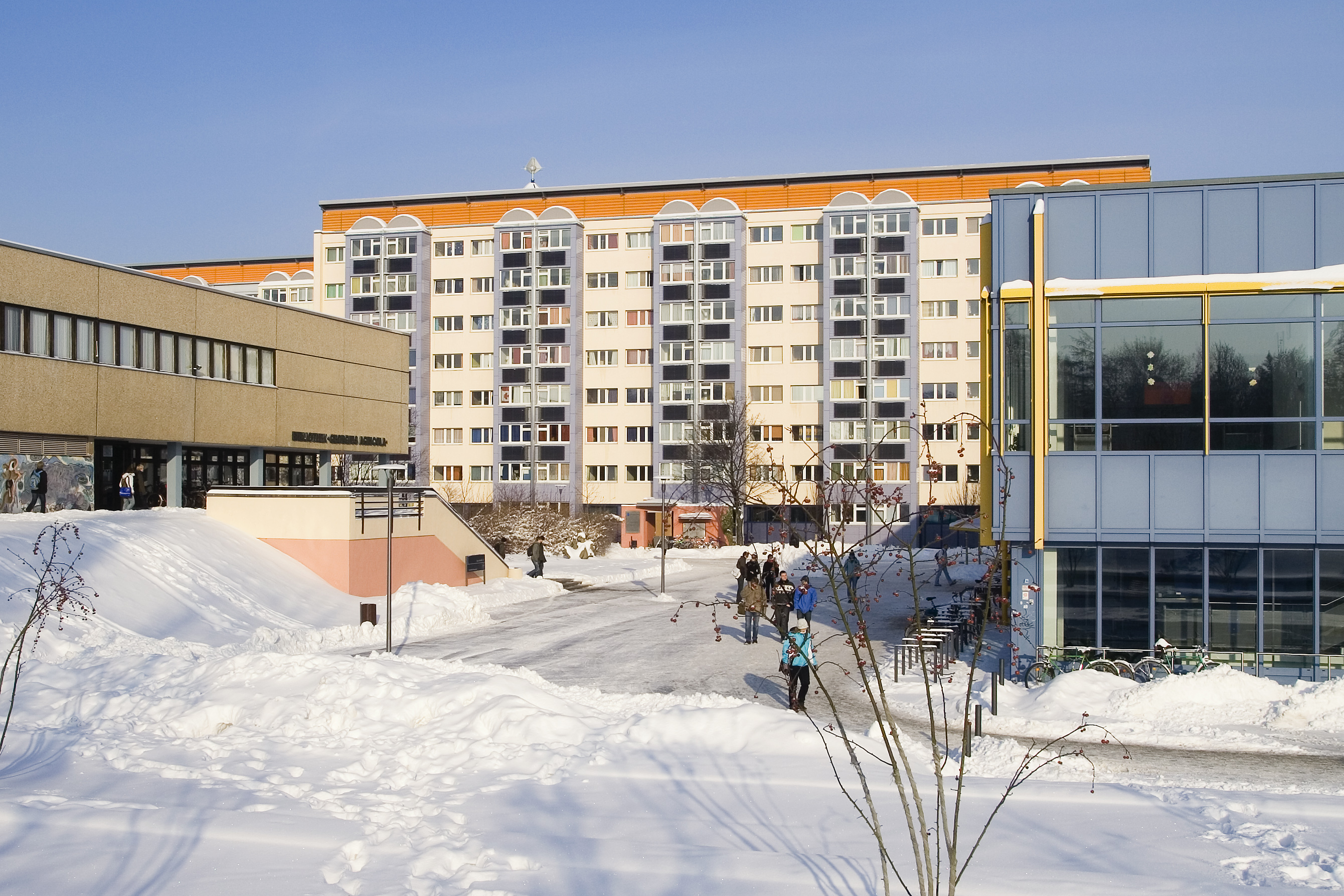 Freiberg (Saxony), Technische Universität Bergakademie, campus with the University Library, student residence and cafeteria